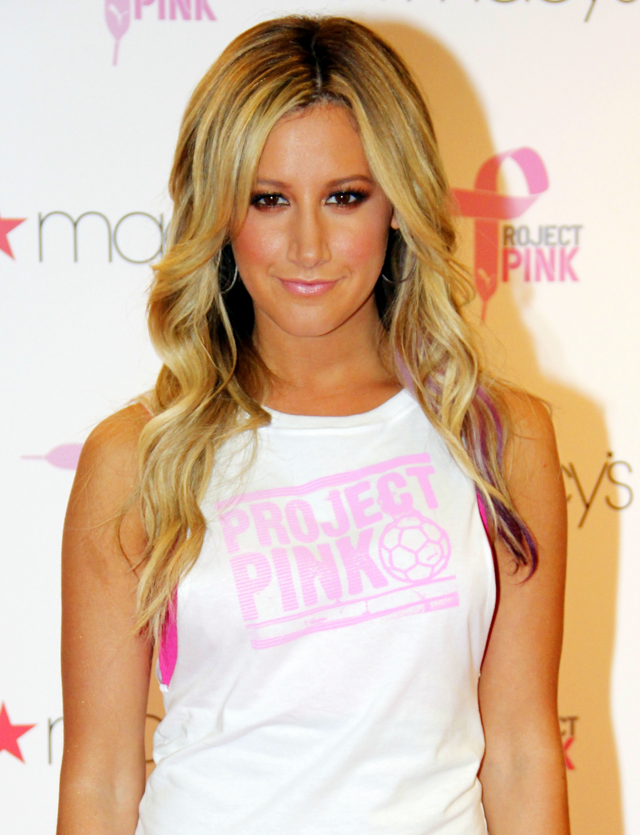 Ashley Tisdale at the Puma Project Pink, Macy*s Herald Square NYC in July 2012.